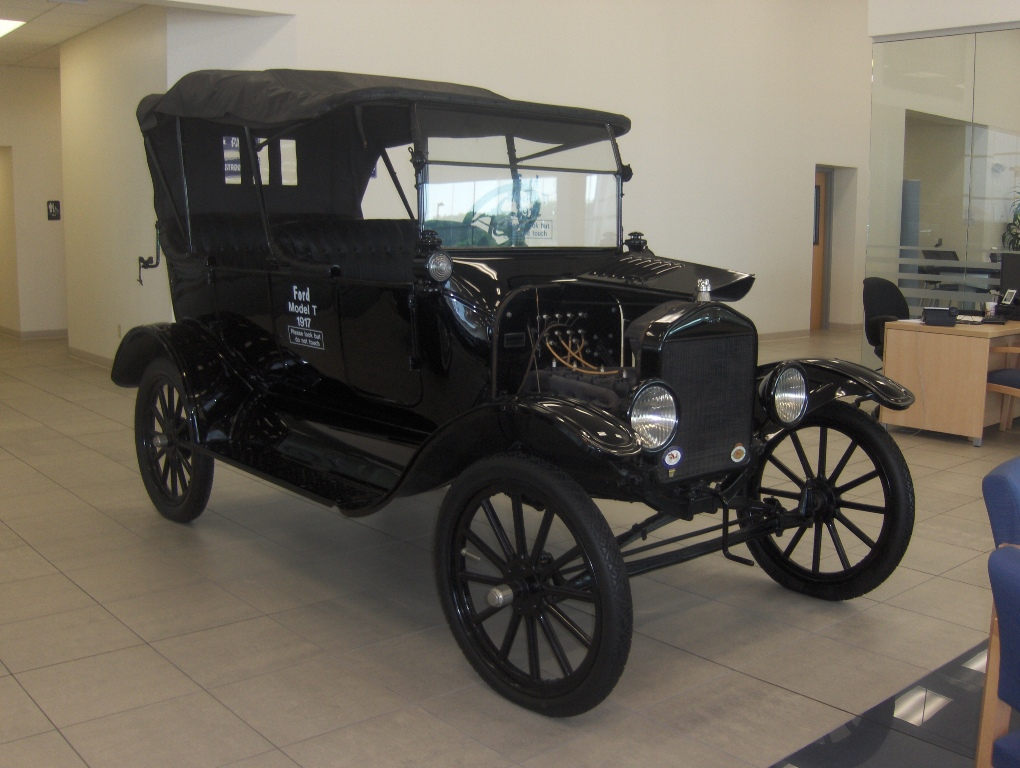 Ford T 1917 Аҧсшәа: Ford T 1917